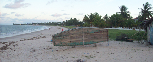 Pitimbue Beach